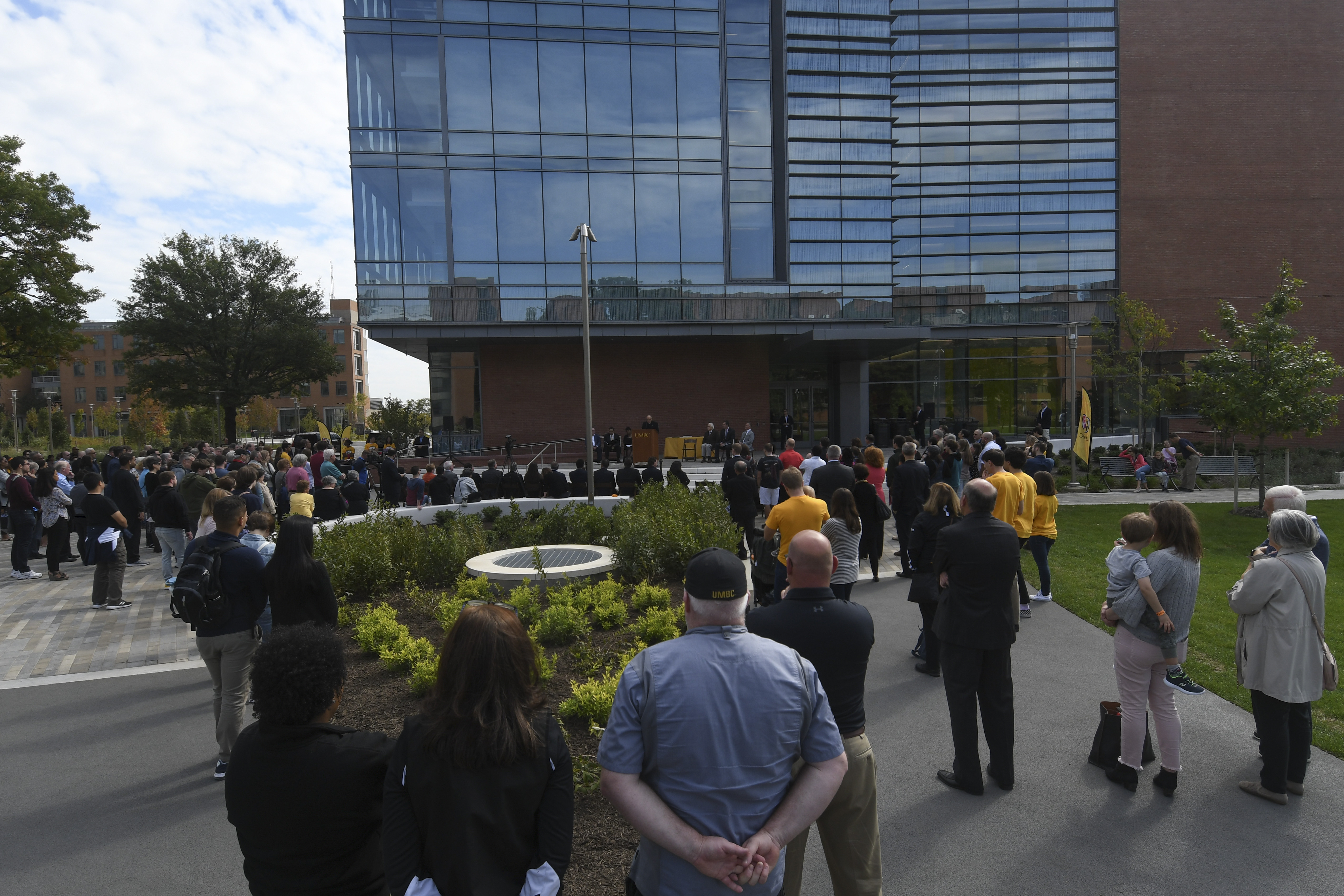 Exterior of the Interdisciplinary Life Sciences Building at the University of Maryland, Baltimore County. Taken at the opening ceremony on October 12, 2019.